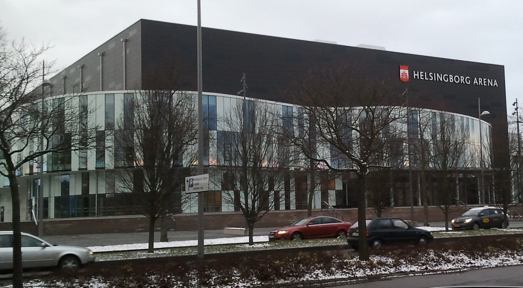 Helsingborg Arena. Photo taken on the 1st of December 2012 (the day after the opening).